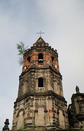 Barasoain Bell Tower